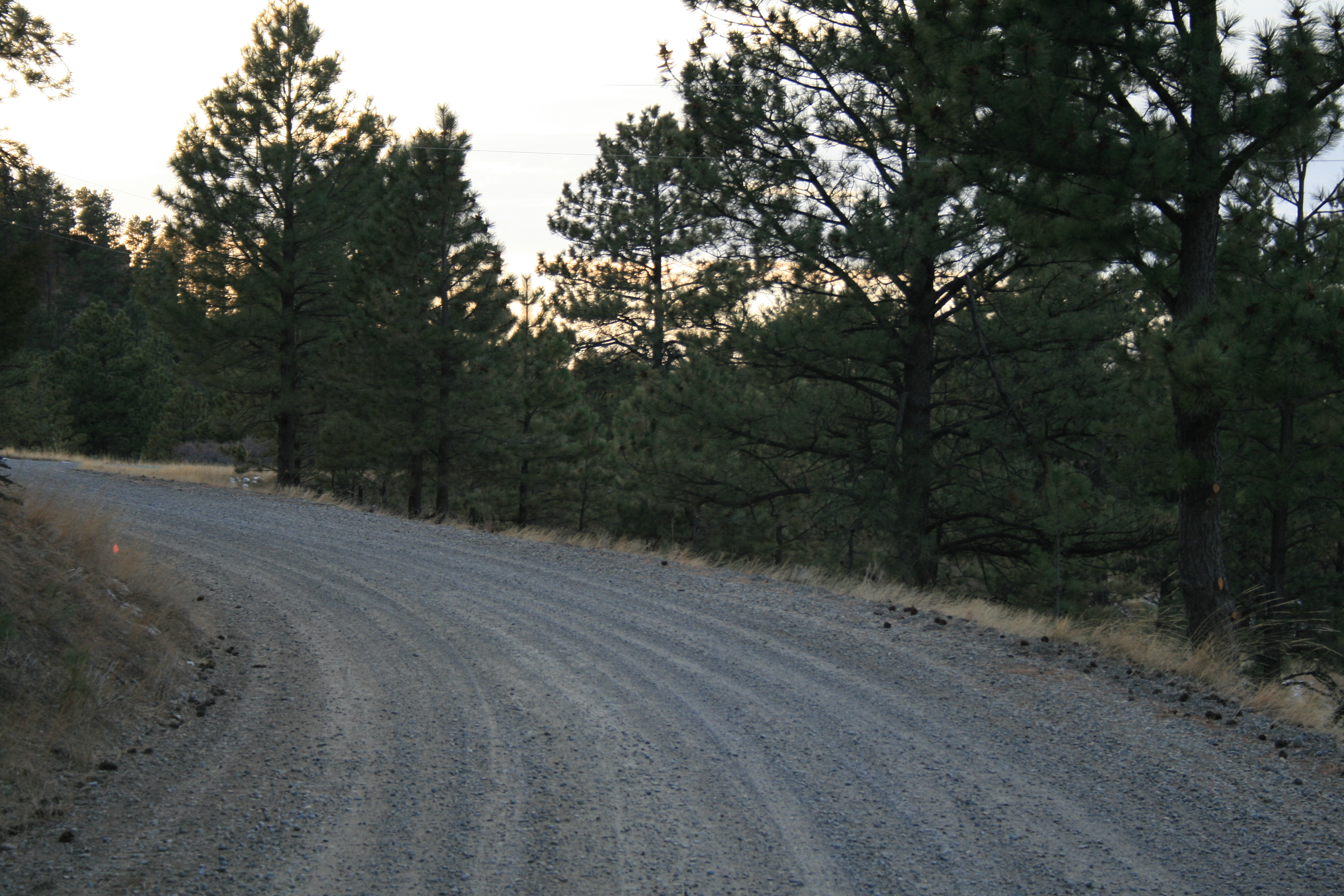 Lockwood